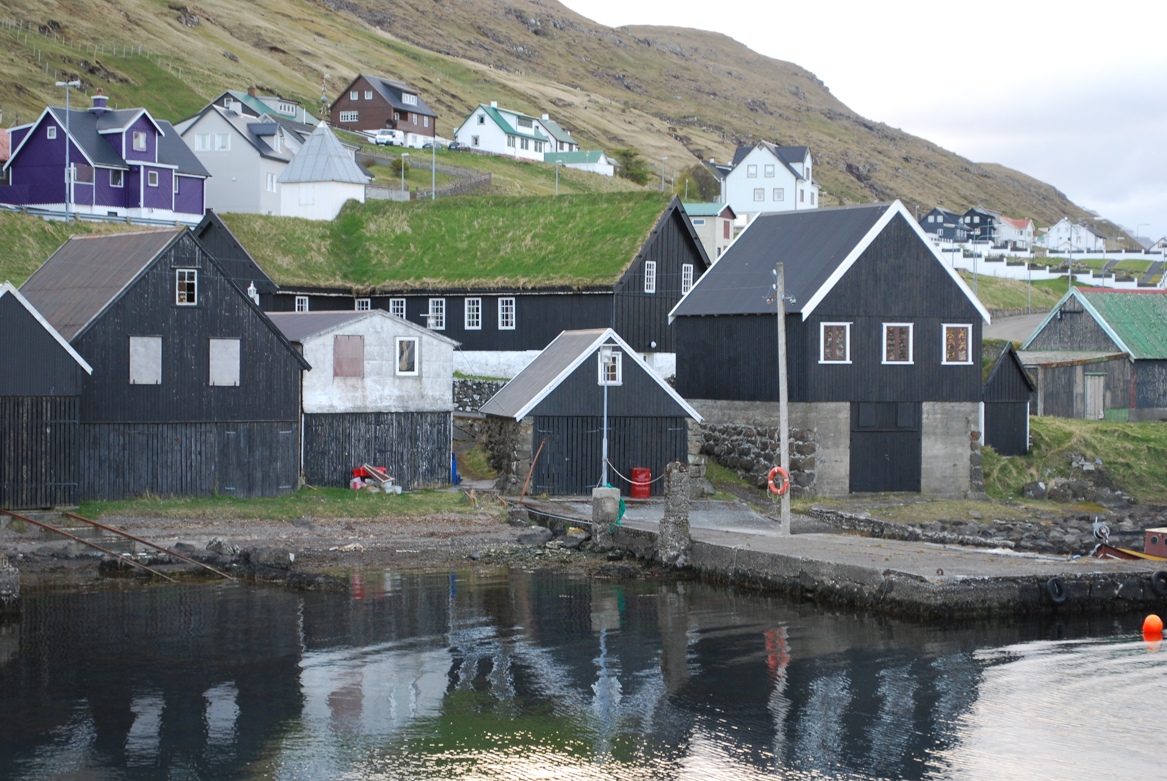 Village Strendur, Eysturoy, Faroe Islands